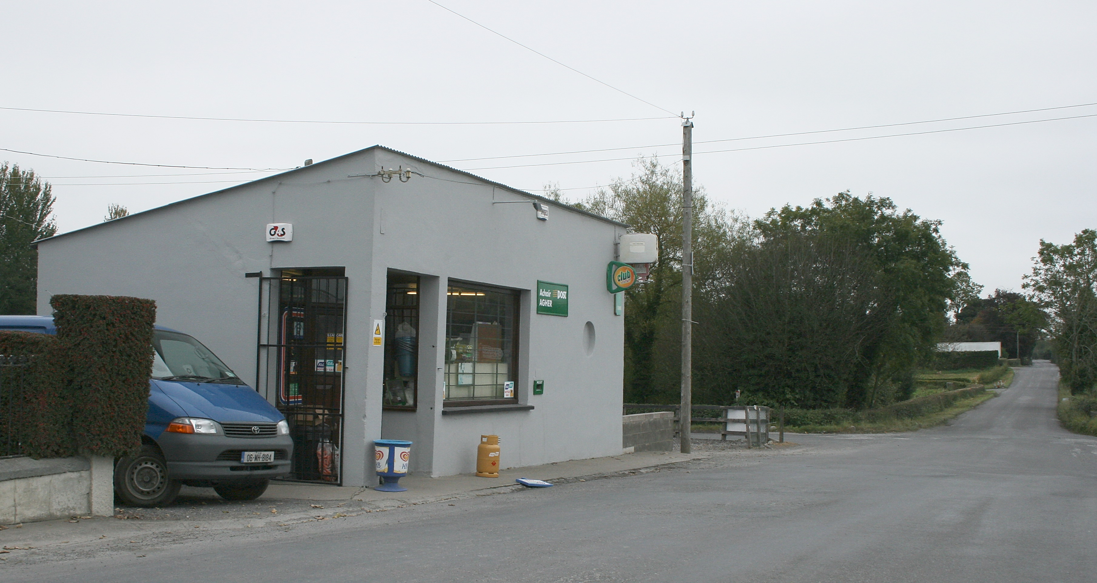 Agher, County Meath, 3 km from Summerhill, Meath, Ireland. Post Office at crossroads.